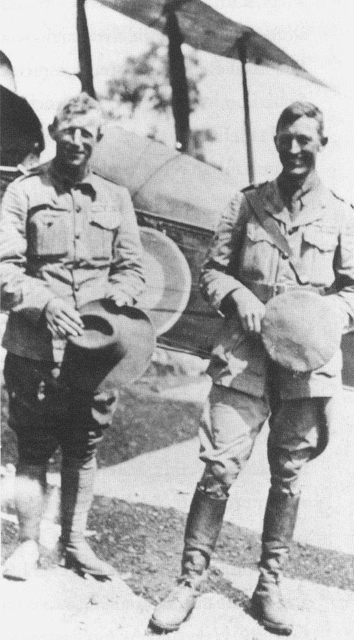 Sergeant A.W. Murphy (left) with Captain H.N. Wrigley during their trans-Australia flight, 1919. In the background is their Royal Aircraft Factory B.E.2 aircraft.